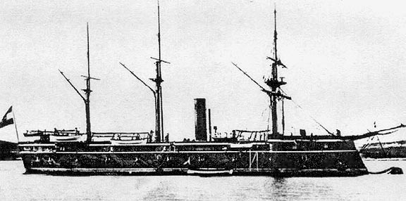 Austrian frigate SMS Erzherzog Ferdinand Max.